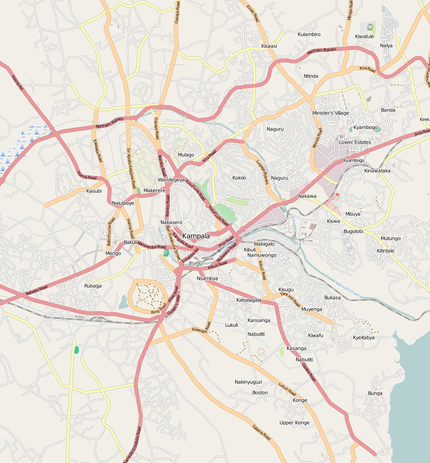 Map of Kampala Geographic limits of the map: N: 0.3831° S: 0.2521° W: 32.5267° E: 32.6484°